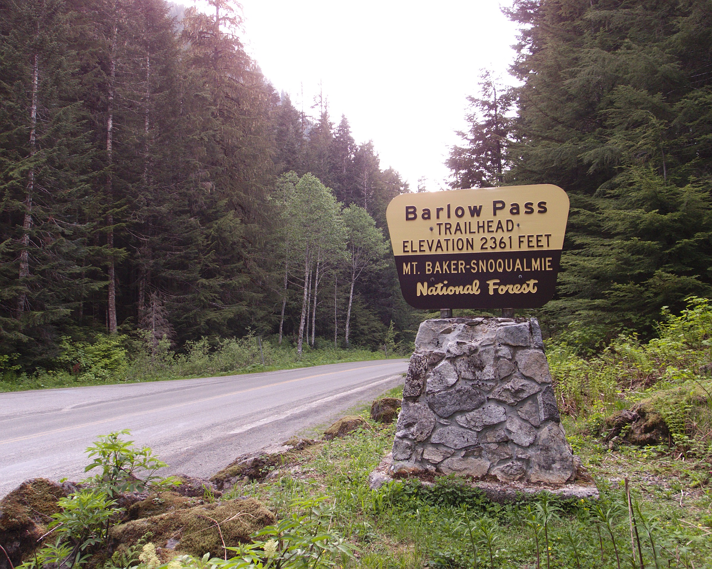 Barlow Pass trailhead sign on Mountain Loop Highway in the Mount Baker-Snoqualmie National Forest.